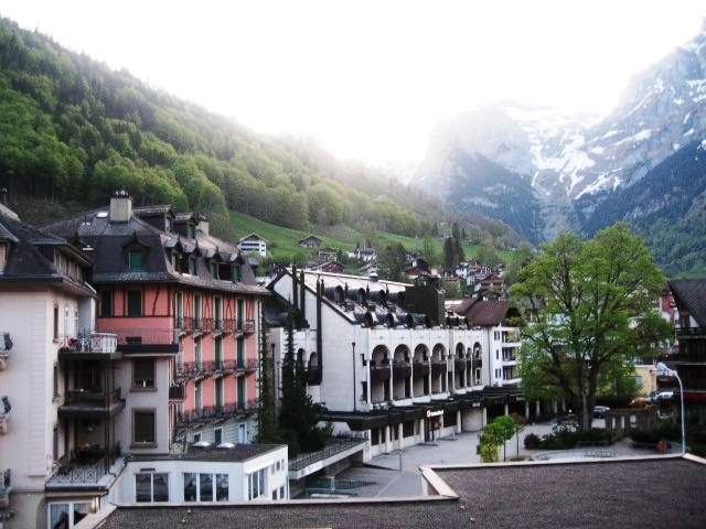 Photo taken when visiting Engelberg as tourist.